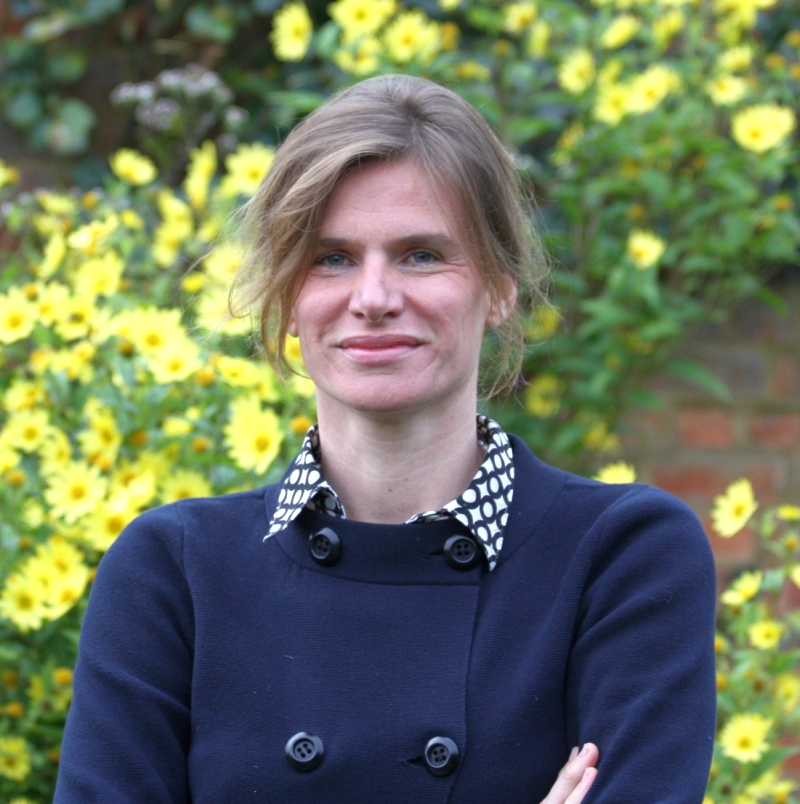 Professor Mariana Mazzucato